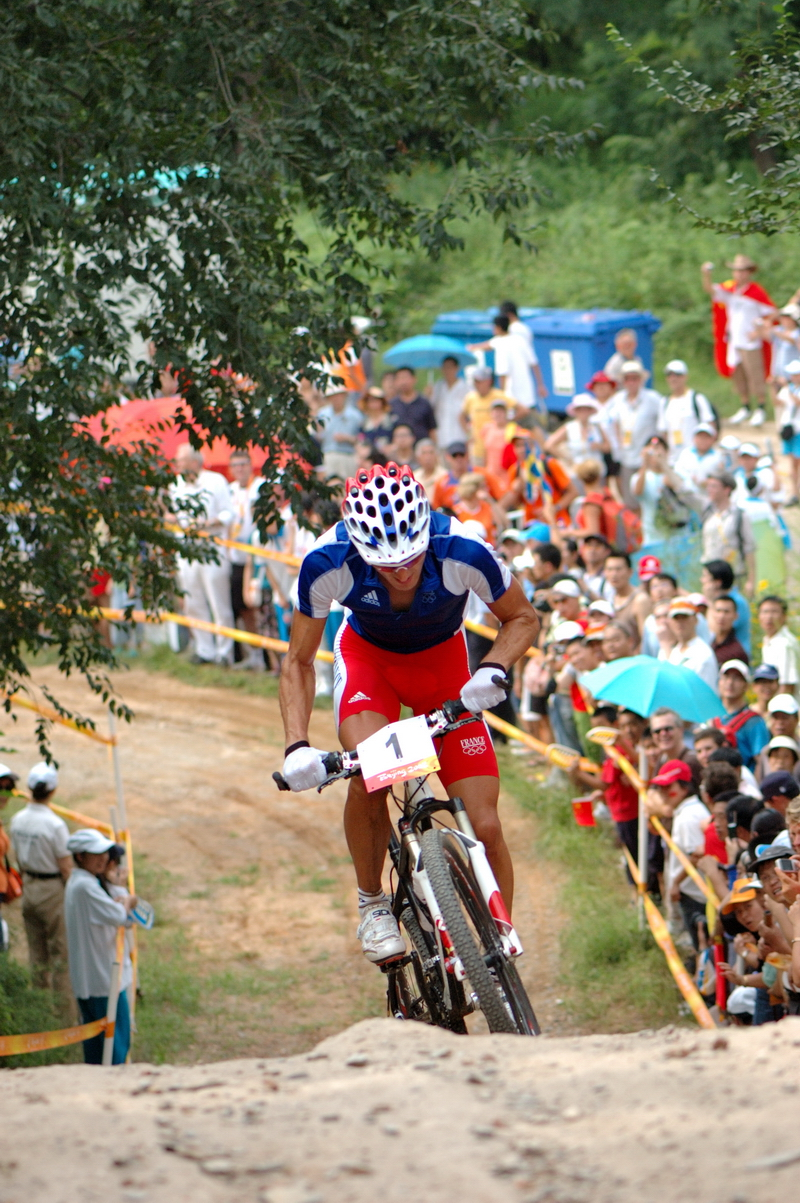 Cycling at the 2008 Summer Olympics – Men's cross-country - Julien Absalon (France)